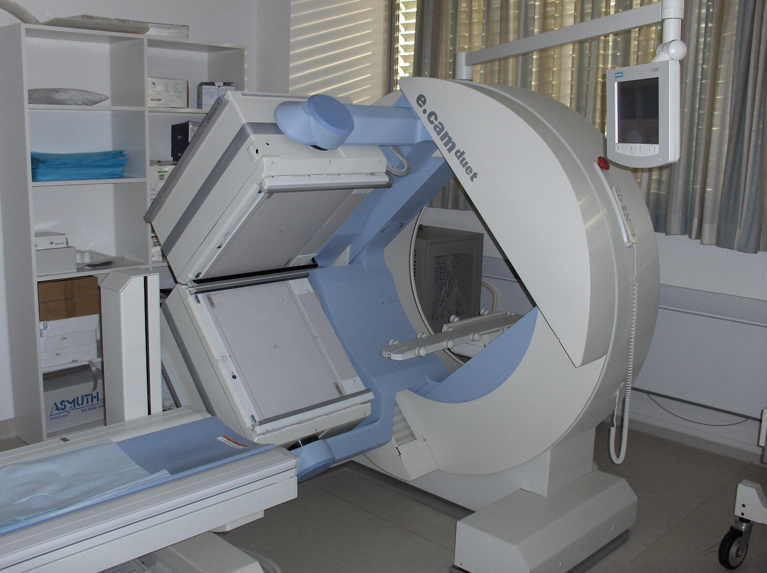 Siemens Ecam duet two head gamma camera